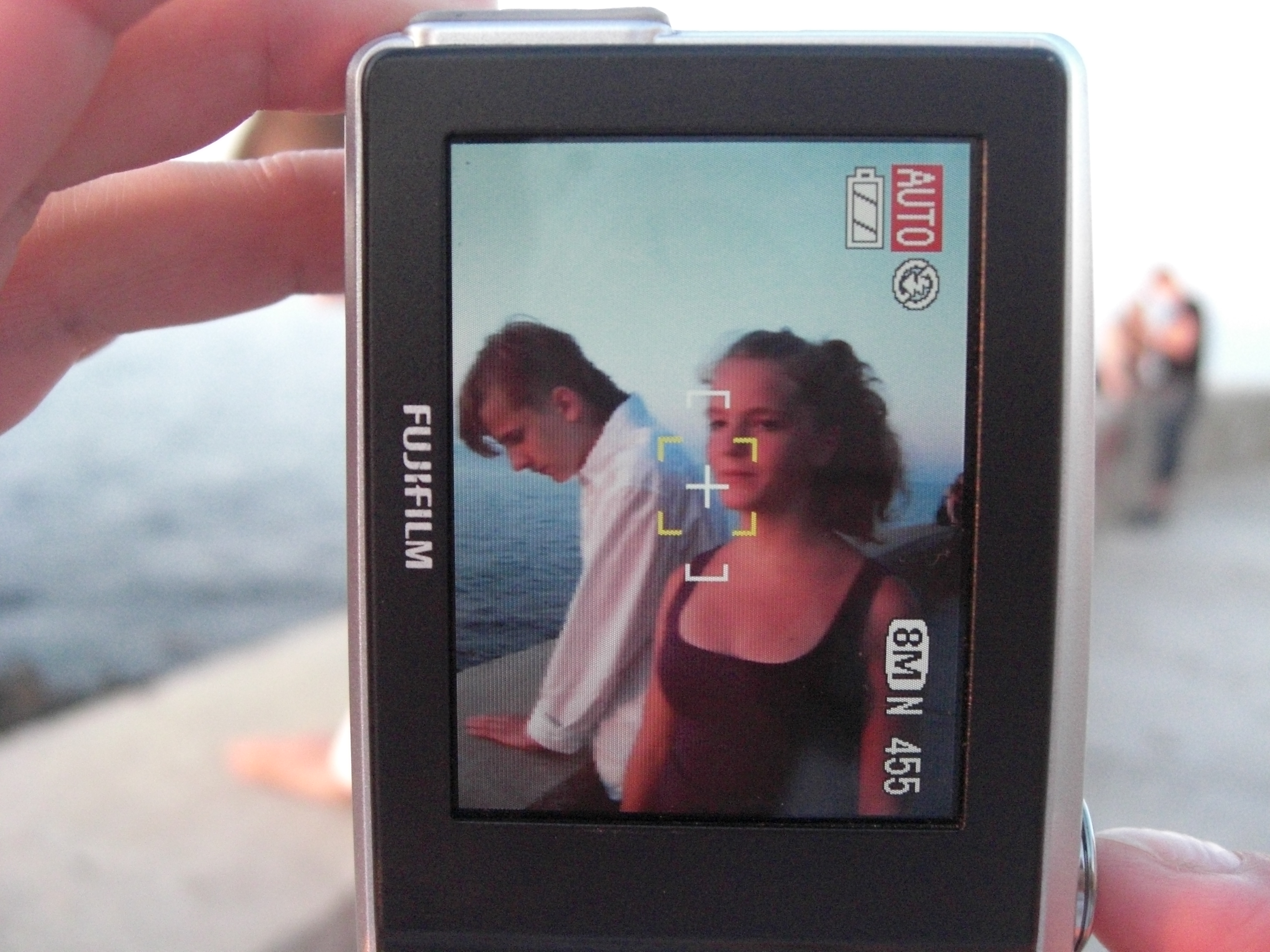 Fujifilm digital camera with autofocus